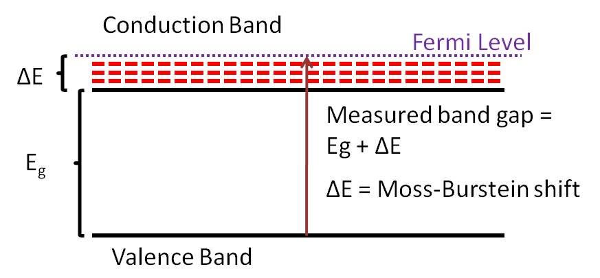 Defines Moss-Burstein shift